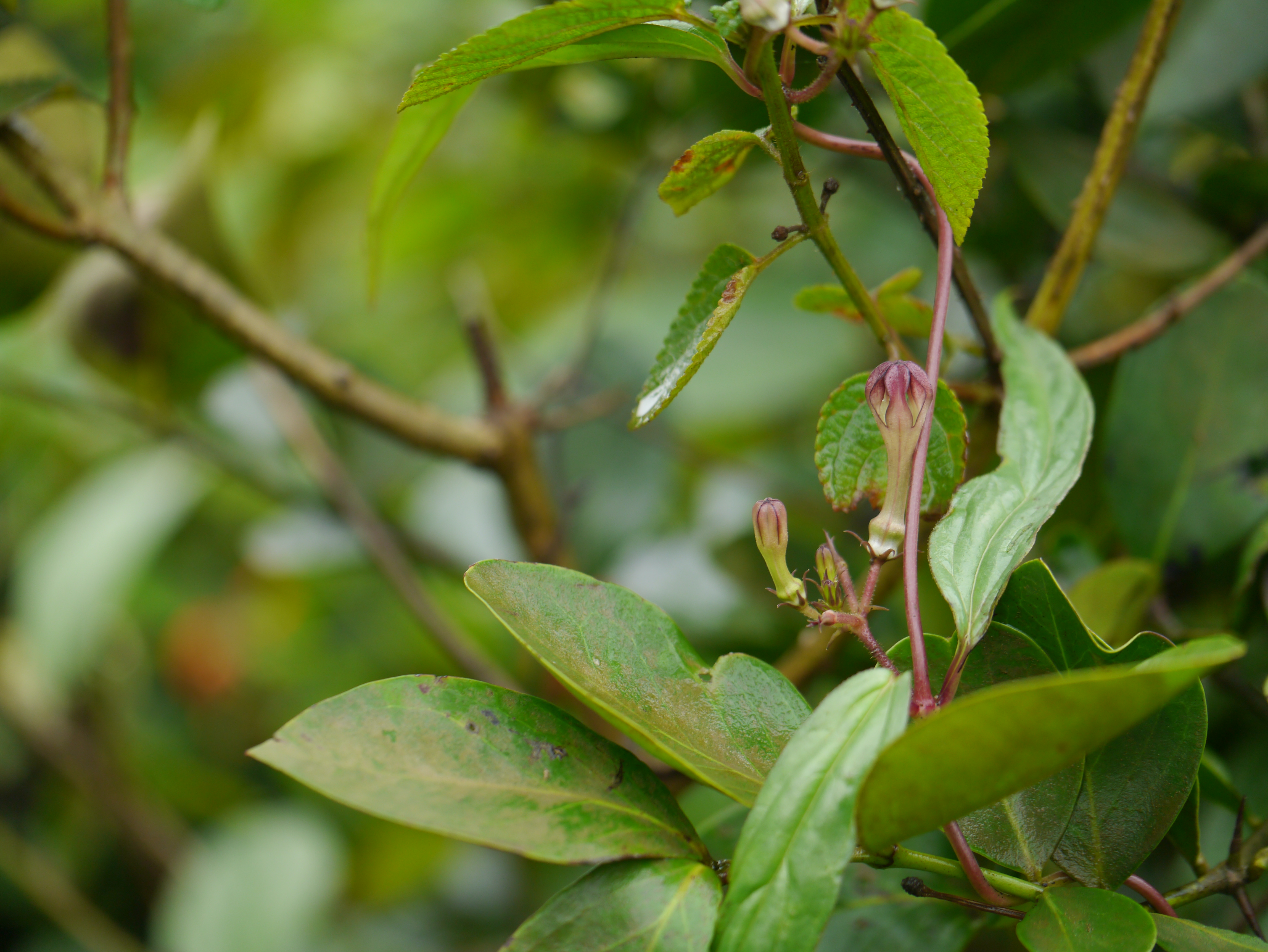 Asclepiadaceae (milkweed family) » Ceropegia media (Huber) Ansari seer-oh-PEEJ-ee-uh -- from the Greek keros (wax) and pege (fountain) ... Dave's Botanary MEED-ee-uh -- average, middle ... Dave's Botanary commonly known as: medium ceropegia • Marathi: मेडी खरचुडी medi kharchudi Endemic to: northern Western Ghats (of India) References: Flowers of India • The Ceropegia Lexicon • Flowers of Sahyadri by Shrikant Ingalhalikar